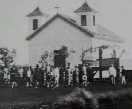 Capela em madeira